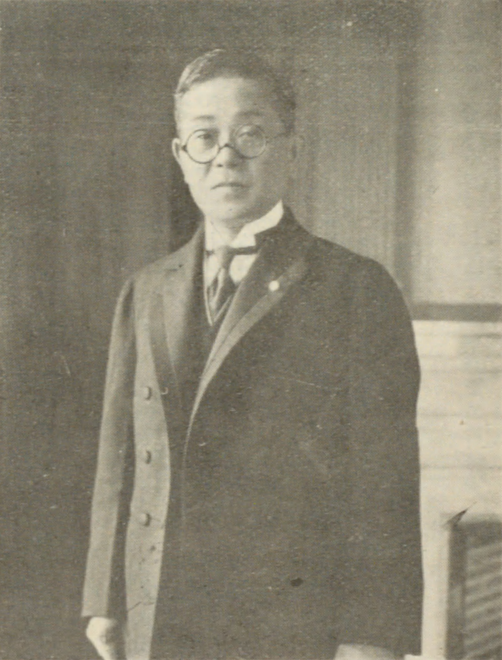 Portrait of Nezu Kaichiro I (初代根津嘉一郎, 1860 – 1940)